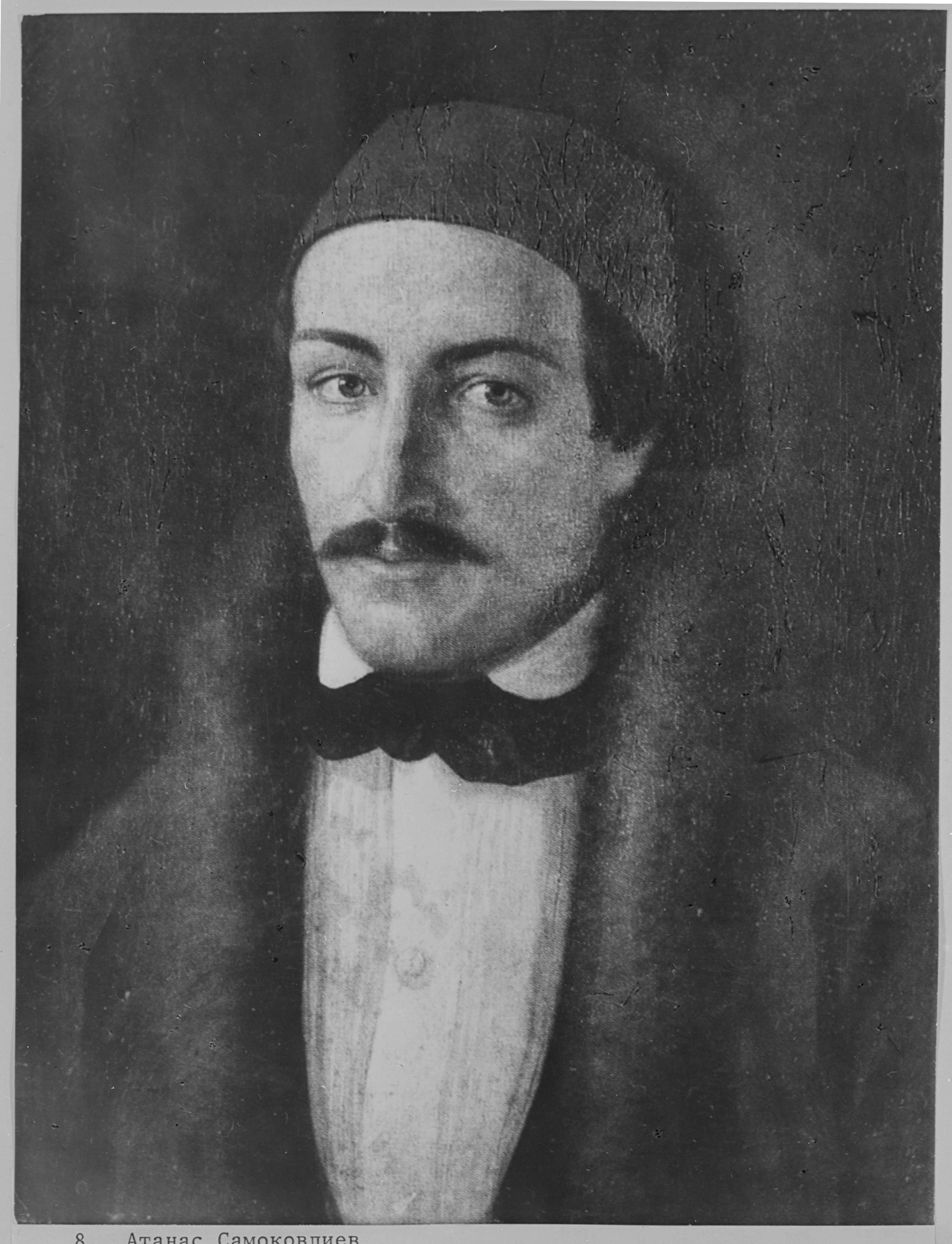 Atanas Samokovets